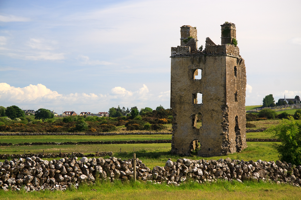 Castles of Connacht: Barnaderg, Galway, near to Barnaderg and Castlemoyle, Ireland. A five storey O'Kelly tower house dating from the late C16.